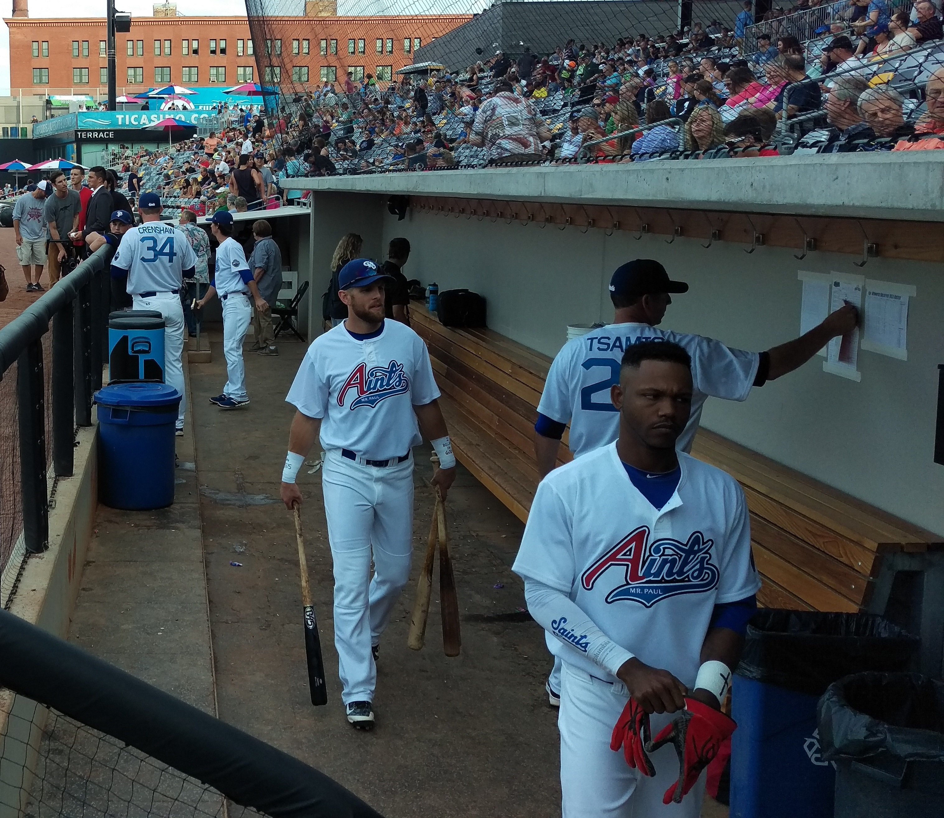 August 8, 2015 - Minnesota Atheists sponsored a St. Paul Saints game at CHS Field. Players Mr. Paul Aints jerseys for a secularized re-branding of the team for one night.